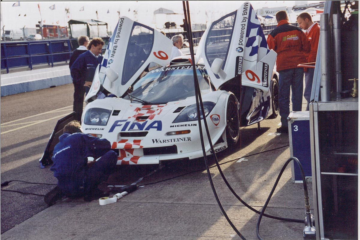 McLaren F1 GTR Donnington 1997, can't remember the driver/s the no 8 car was driven by Steve Soper, I remember getting kicked out of the pit lane 3 times, but got some good pic's.